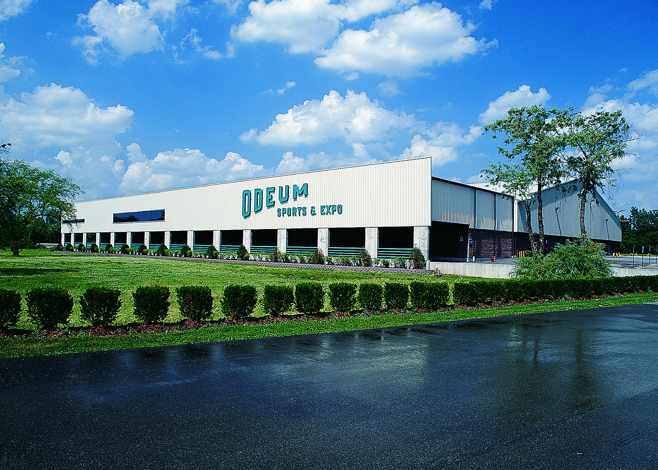 The Odeum Expo Center in Villa Park, US as at March 2003.